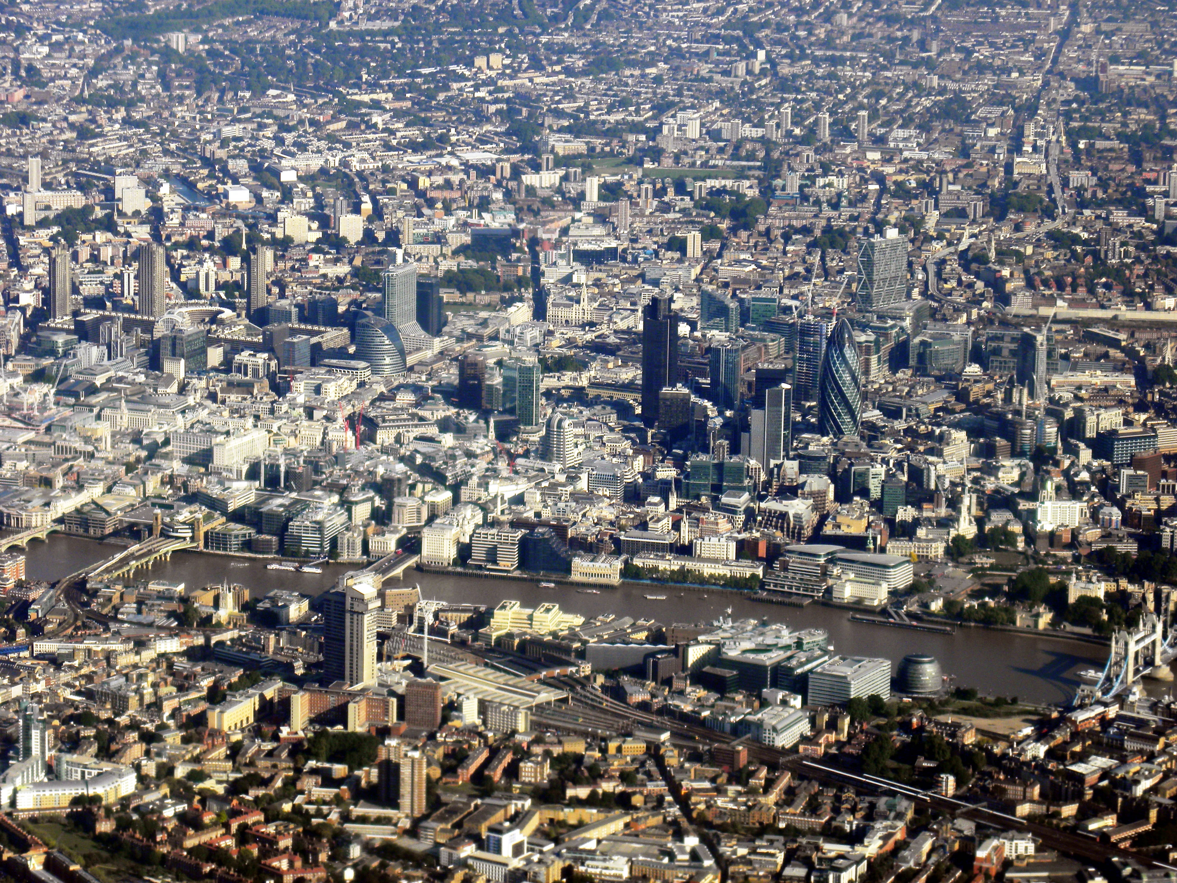 The City of London from the air, on approach into London Heathrow Airport.